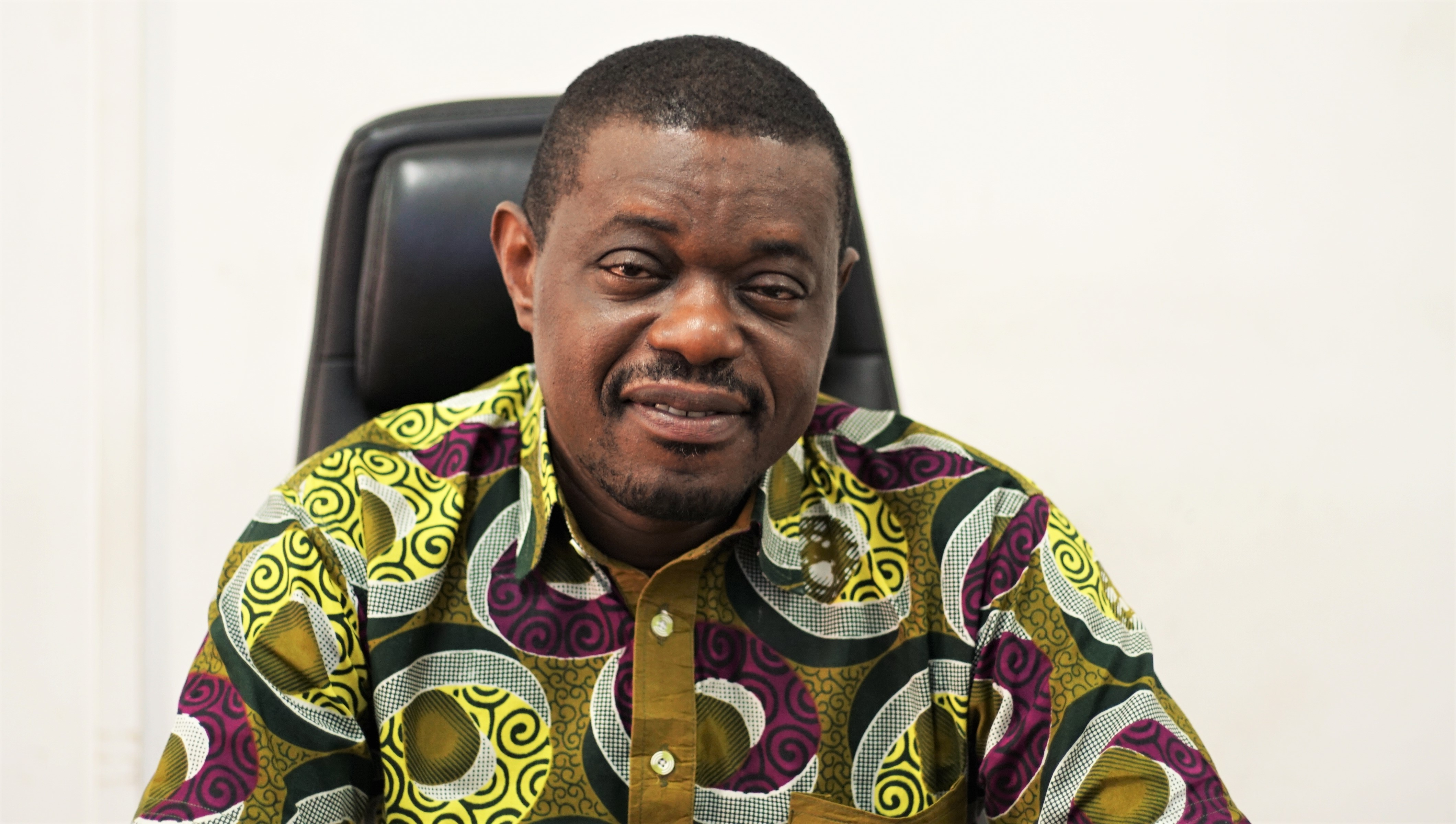 Ekow Blankson Managing Director for TV Africa